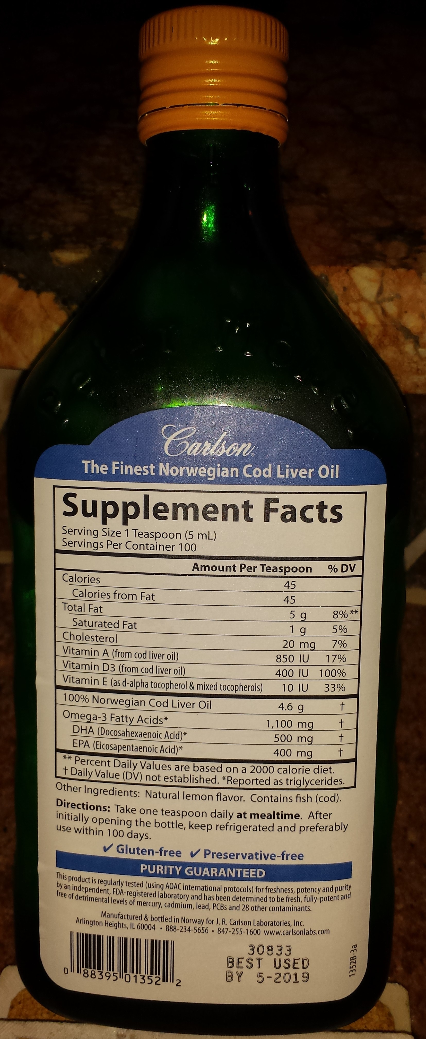 label on the back of a bottle of cod liver oil